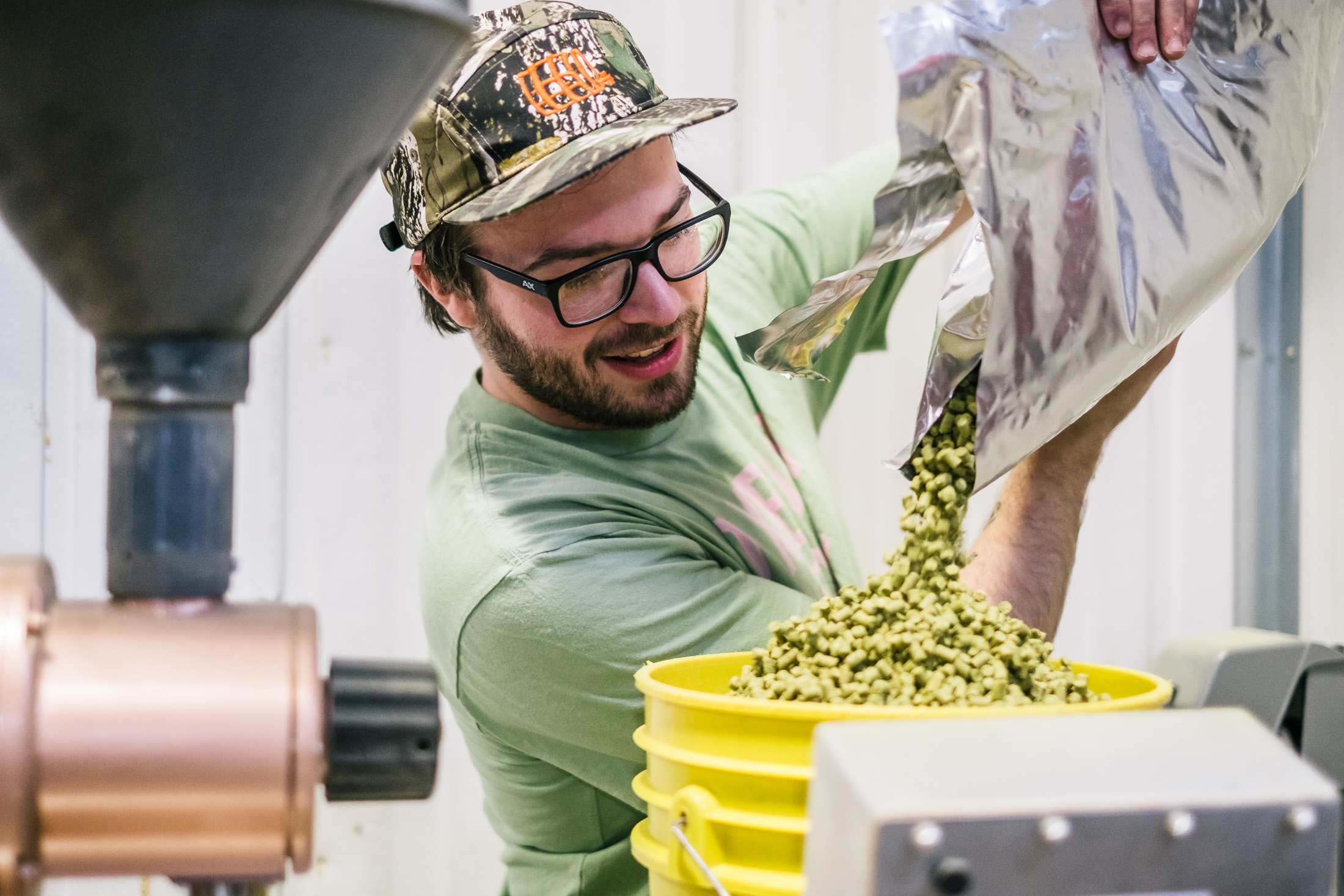 Oxbow Collaboration Part 1